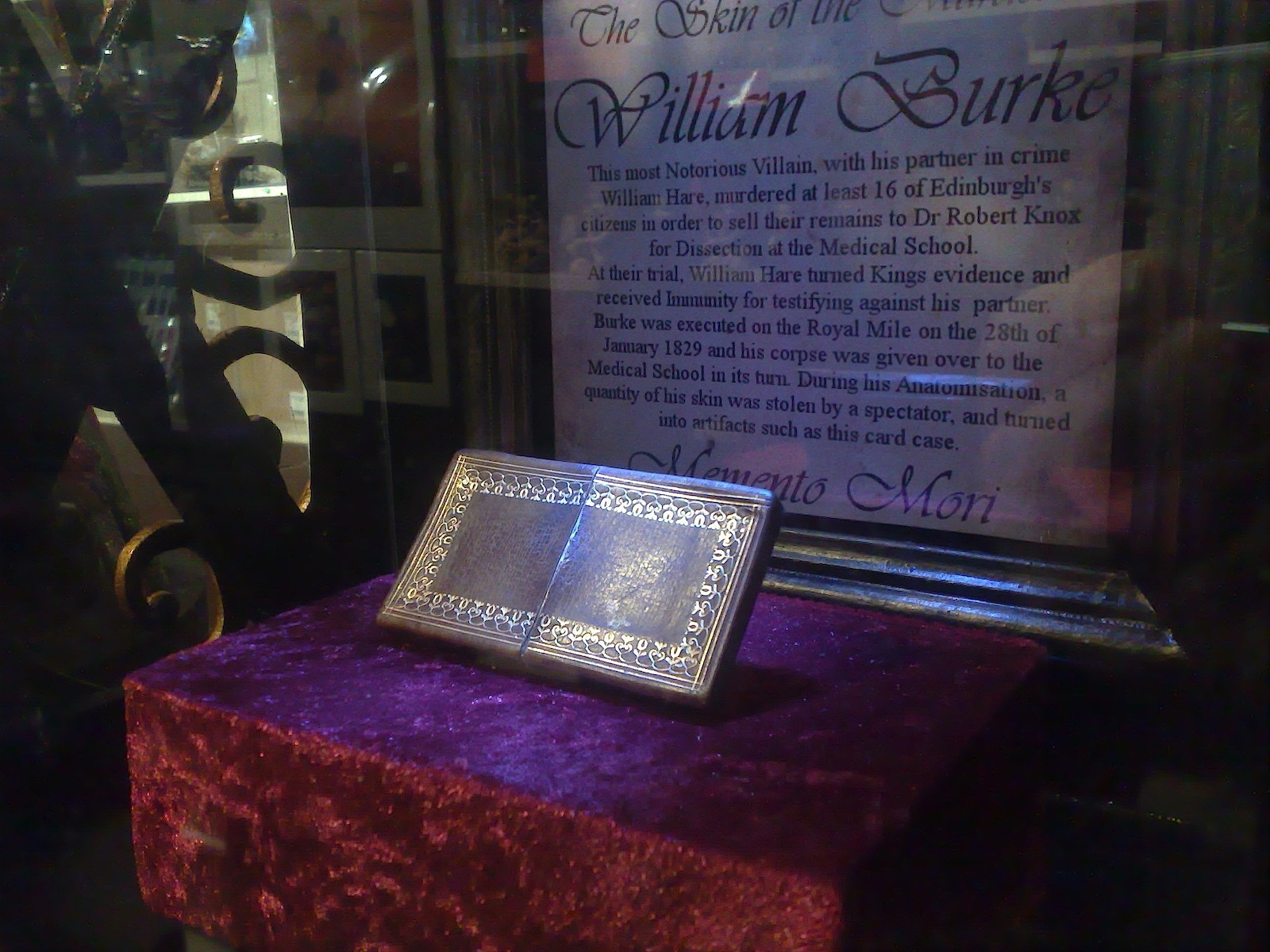 A Calling Card Case made out of the skin taken from the back of the left hand of notorious Edinburgh 'bodysnatcher' William Burke.